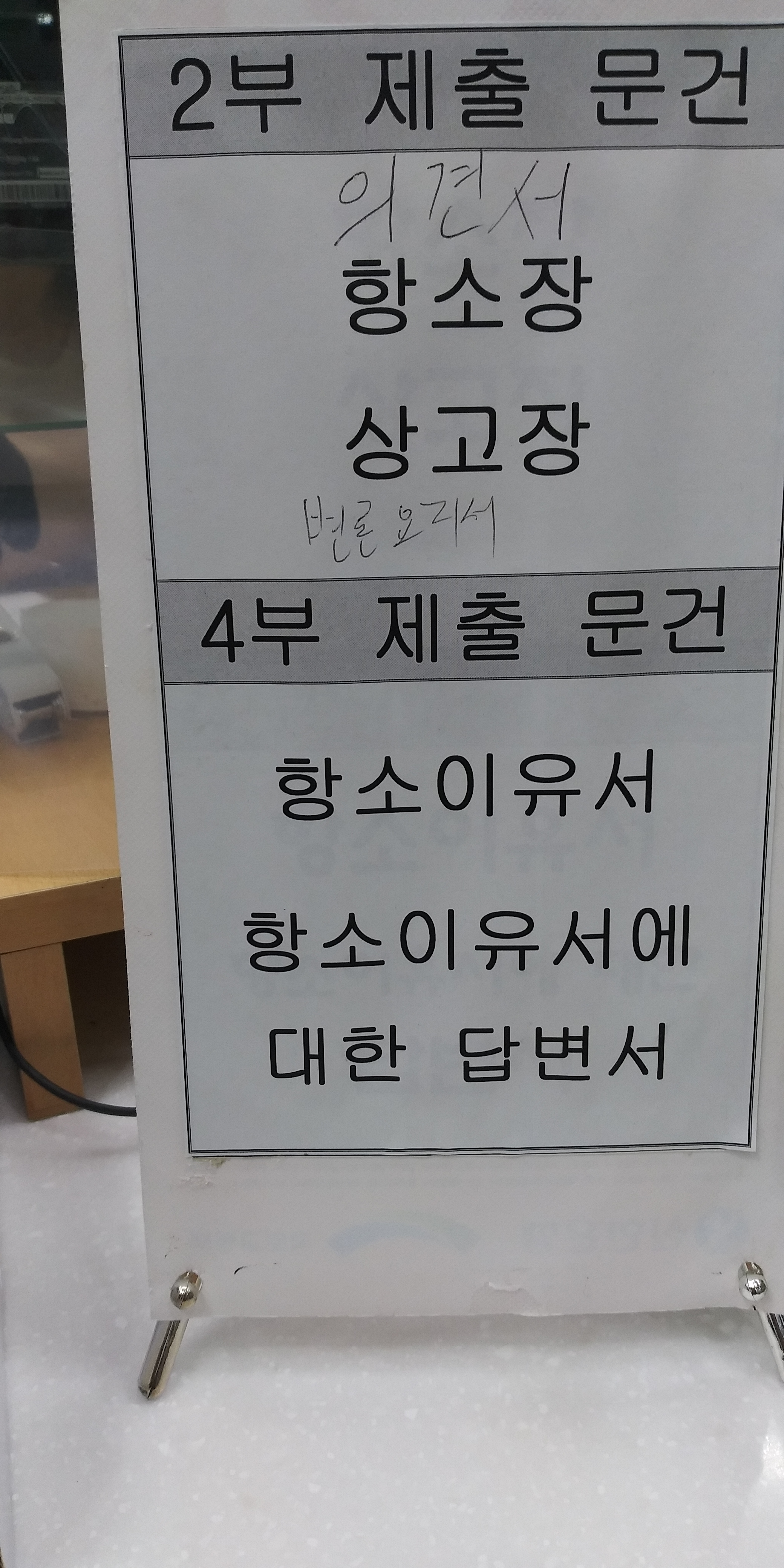 ㅁ00paper. open